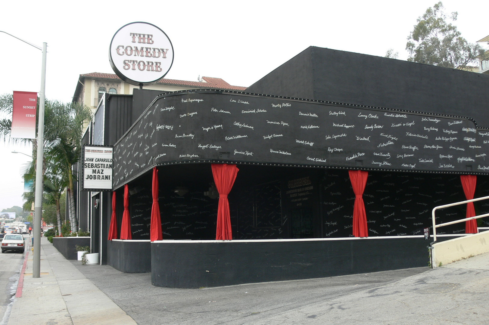 The Comedy Store, 8433 W. Sunset Blvd., West Hollywood, CA. Photograph by Mike Dillon, May 10, 2006.